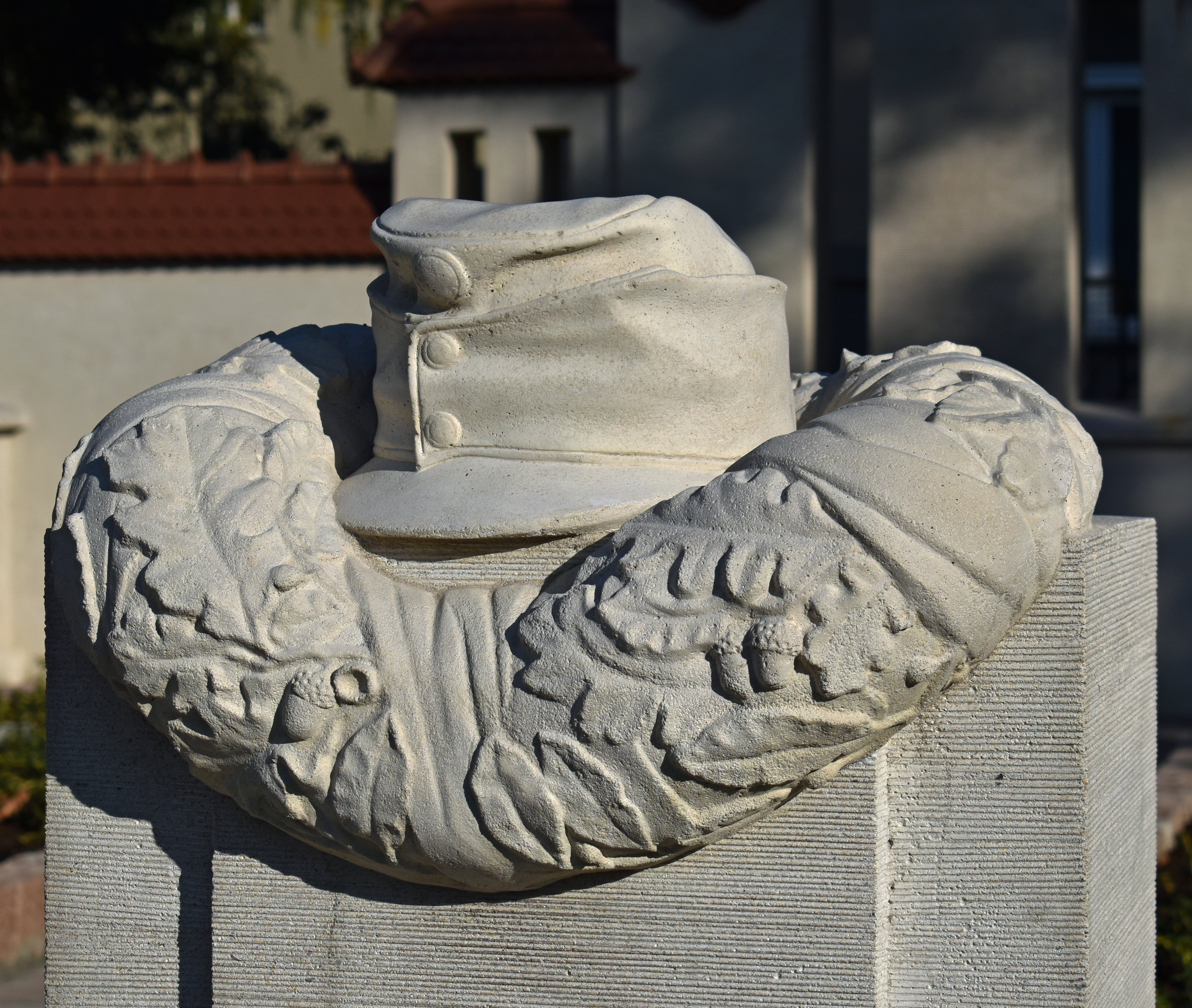 WWI, Military cemetery No. 390 Mogiła (detail), Wandy Estate, Nowa Huta, Krakow, Poland